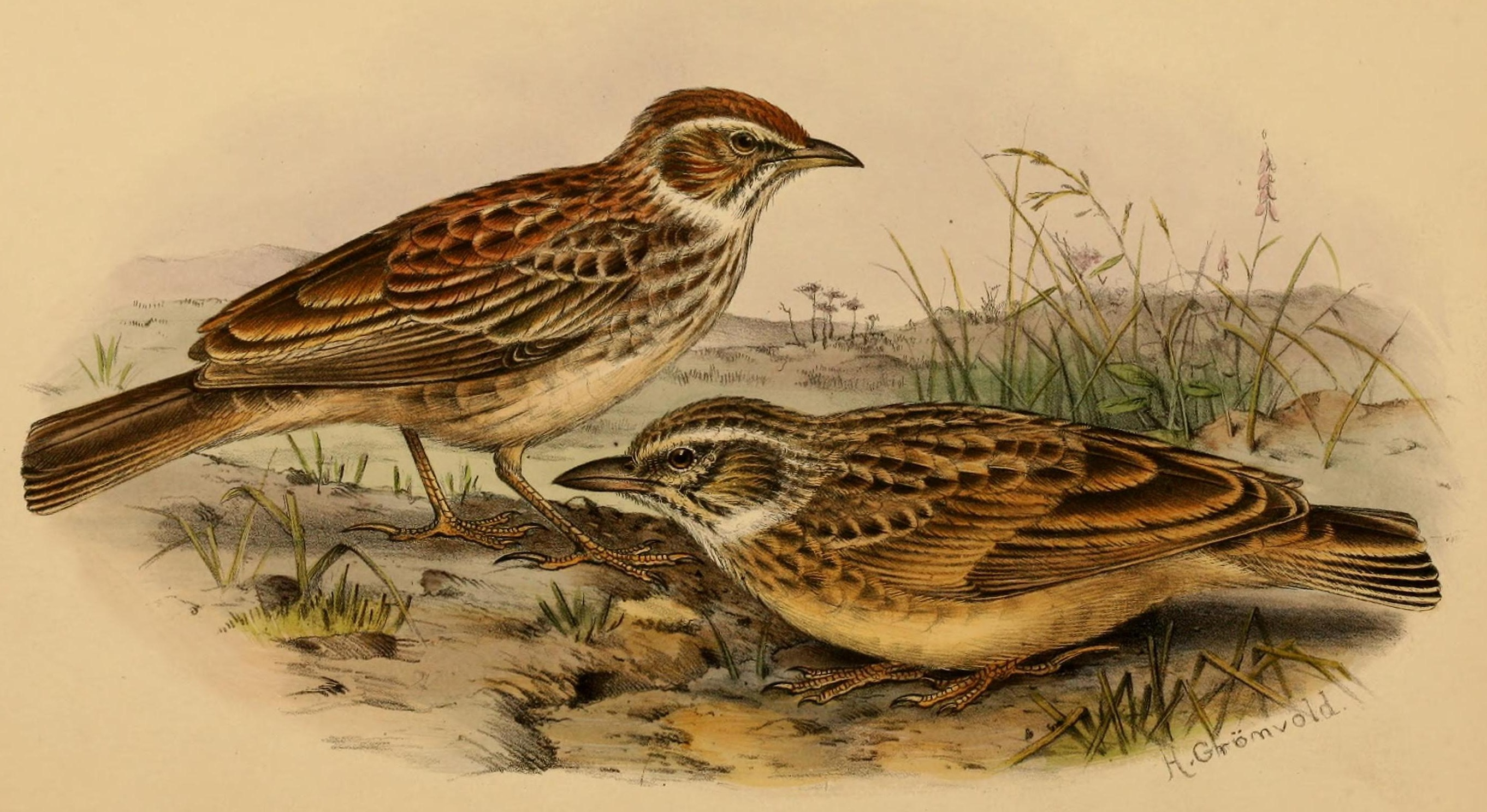 Gillett's lark, Mirafra gilletti Sharpe, 1895 (left), and Sabota lark, Calendulauda sabota Smith, 1836 (right), in the third of five volumes of G. E. Shelley's Birds of Africa (1896 to 1912)